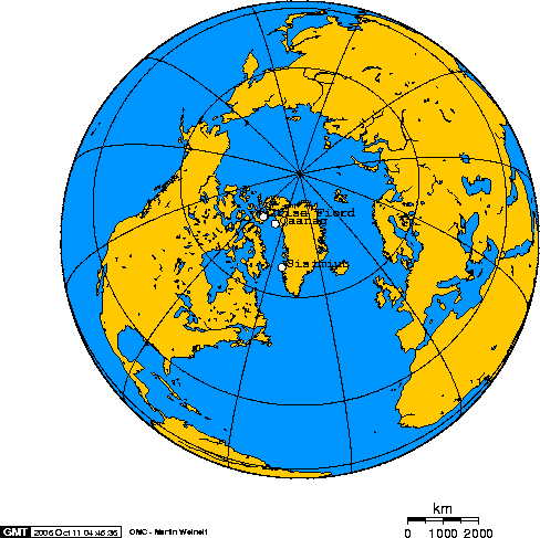 Sisimiut, Qaanaaq, Grise Fiord